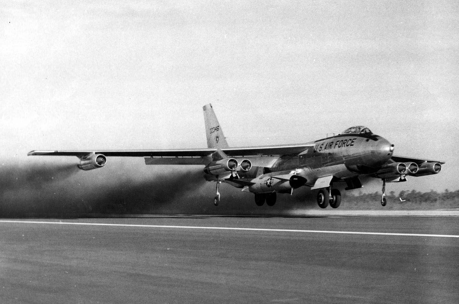 Boeing YDB-47E (SN 53-2346) taking off with GAM-63